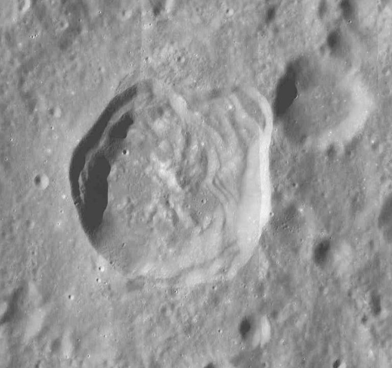 Crater Stiborius (detail of LRO - WAC global moon mosaic; Mercator projection)